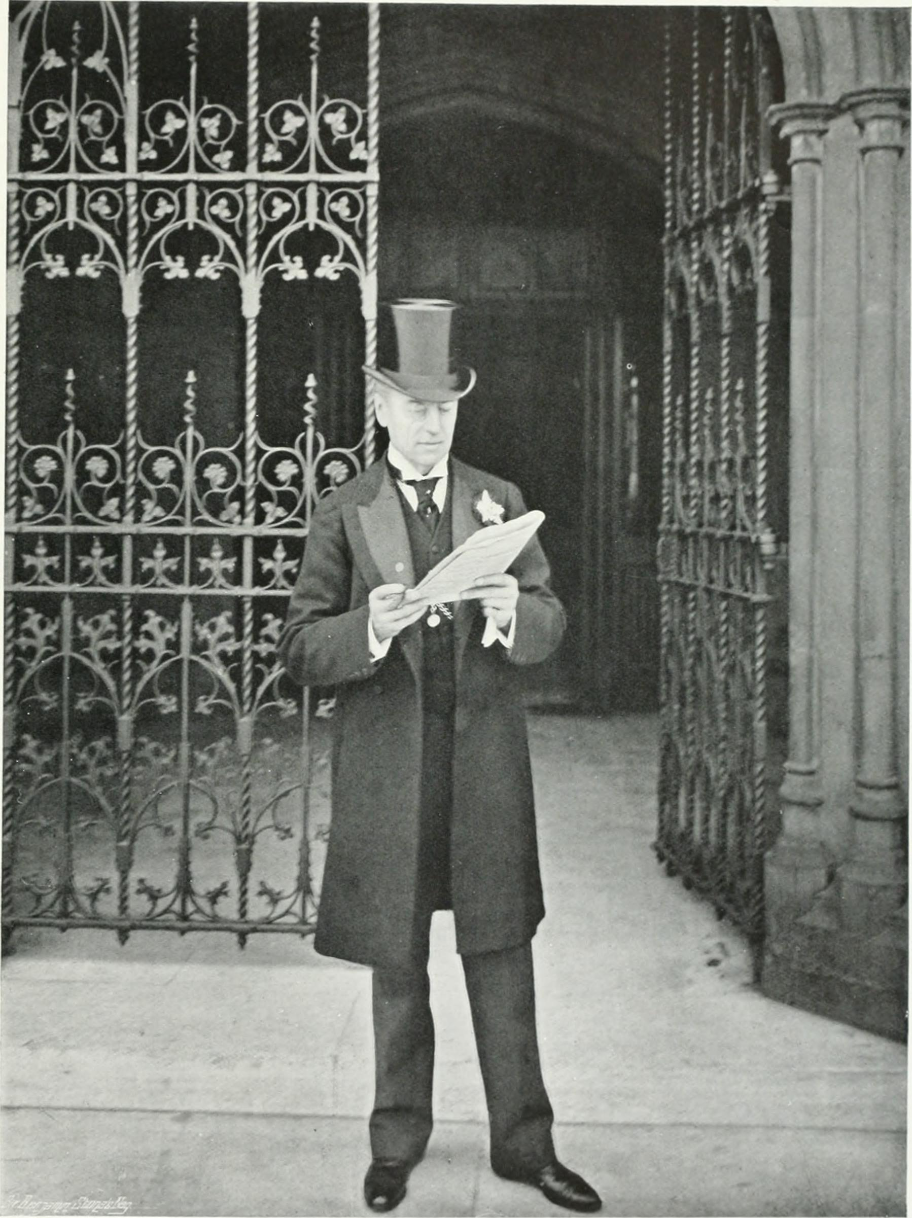 Title: Sir Benjamin Stone's pictures; records of national life and history reproduced from the collection of photographs made by Sir Benjamin Stone, M.P Year: 1906 (1900s) Authors: Stone, John Benjamin, Sir, 1838-1914 MacDonagh, Michael, 1862-1946 Subjects: Great Britain. Parliament Statesmen Publisher: London : Cassell Text Appearing Before Image: -, in a penetrating voice; but when he isdeeply moved, or wishes to drive home some fiercethrust, there comes, with the glow of passion in hislanguage, a deej), inspiring swell in his otherwise evenand clear utterance. Above all, there is that highesttest of oratory—its in.stant effect upon the audience. Mr. Chamberlain has initiative and driving force—the two qualities which make most for success in publiclife. Text Appearing After Image: /■ THE PIGMIES. Surely extremes met when the little folk from the heartof the Ituri Fox-est, in Central Africa, mixed with theMembers on the Terrace of the House of Commons.They are siqjposed to be of the lowest type, mentally,as well as the smallest, physically, of the human race.What did they think of the greatest Legislature of theworld ? What dim conception did they fomi of its pur-poses and of its work ? Probably they said it is a goodplace for honey and lime-juice, the two things of civilisa-tion for which they cultivated the keenest zest. They left their native dress aside—beads, bracelets,earrings, nose-rings, anklets^on the day in the Sessionof 1905 when they came over from the Hippodi-ome tothe House of Commons, and were photog)-aphed on theTen-ace, with a background of Members of Parliament.They wore the less picturesque raiment of civilisation,the men being in boys sailor suits. But they werearmed to the teeth with theii- weapons of war, tinybows and arrows and spears.